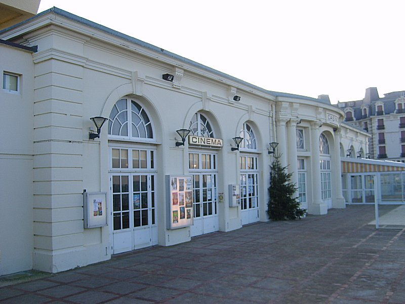 The cinema, Houlgate, new year 2009.